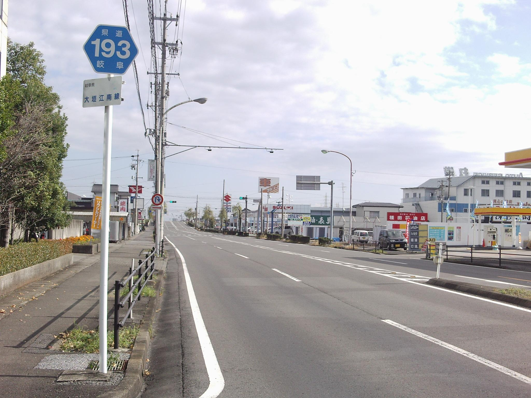 Gifu prefectural road No.193 in Nagasawacho 3-chome, Ogaki, Gifu.